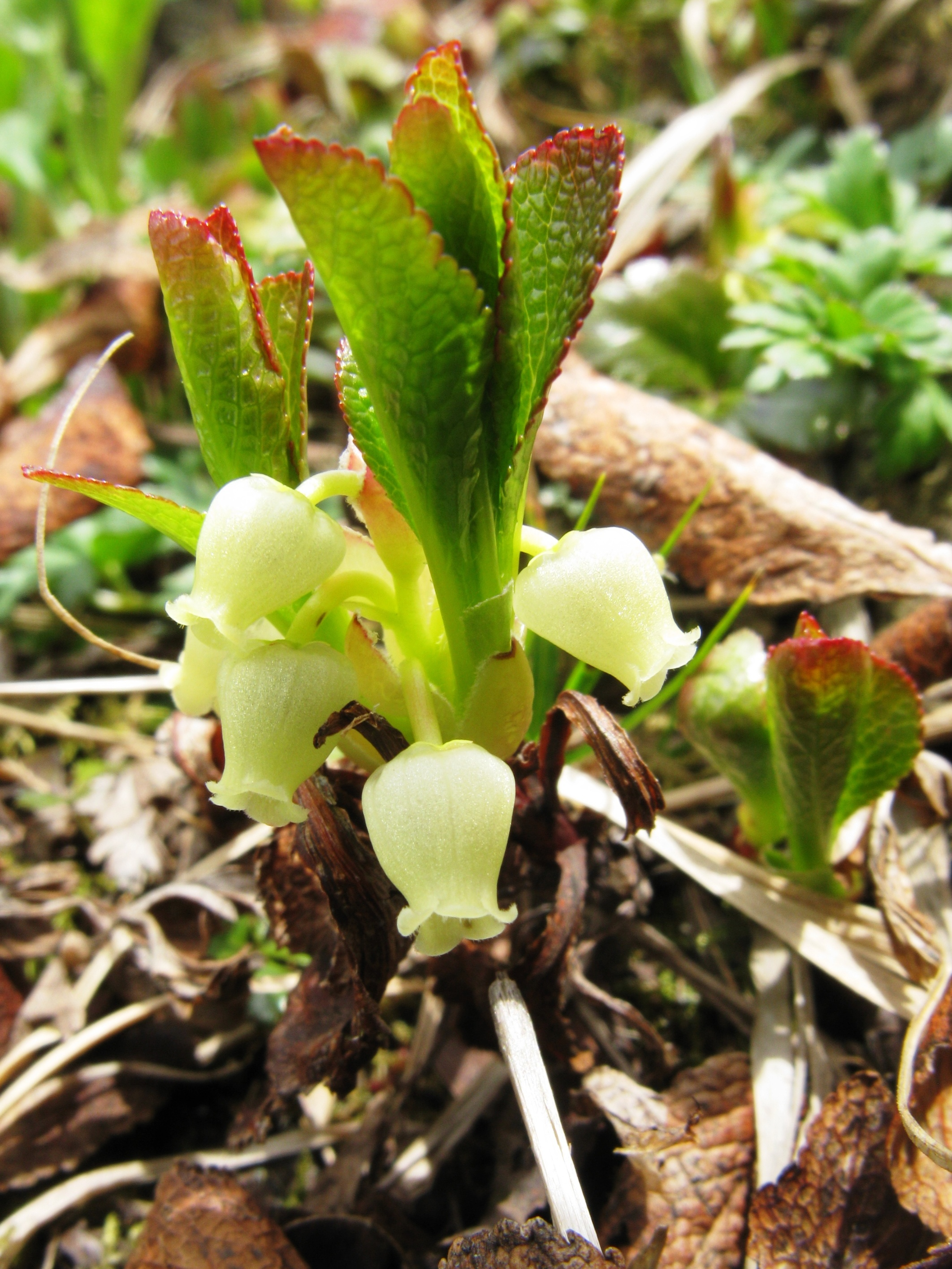 Arctous alpina var. japonica ,Mt. Nishi-Azuma, Yamagata pref., Japan